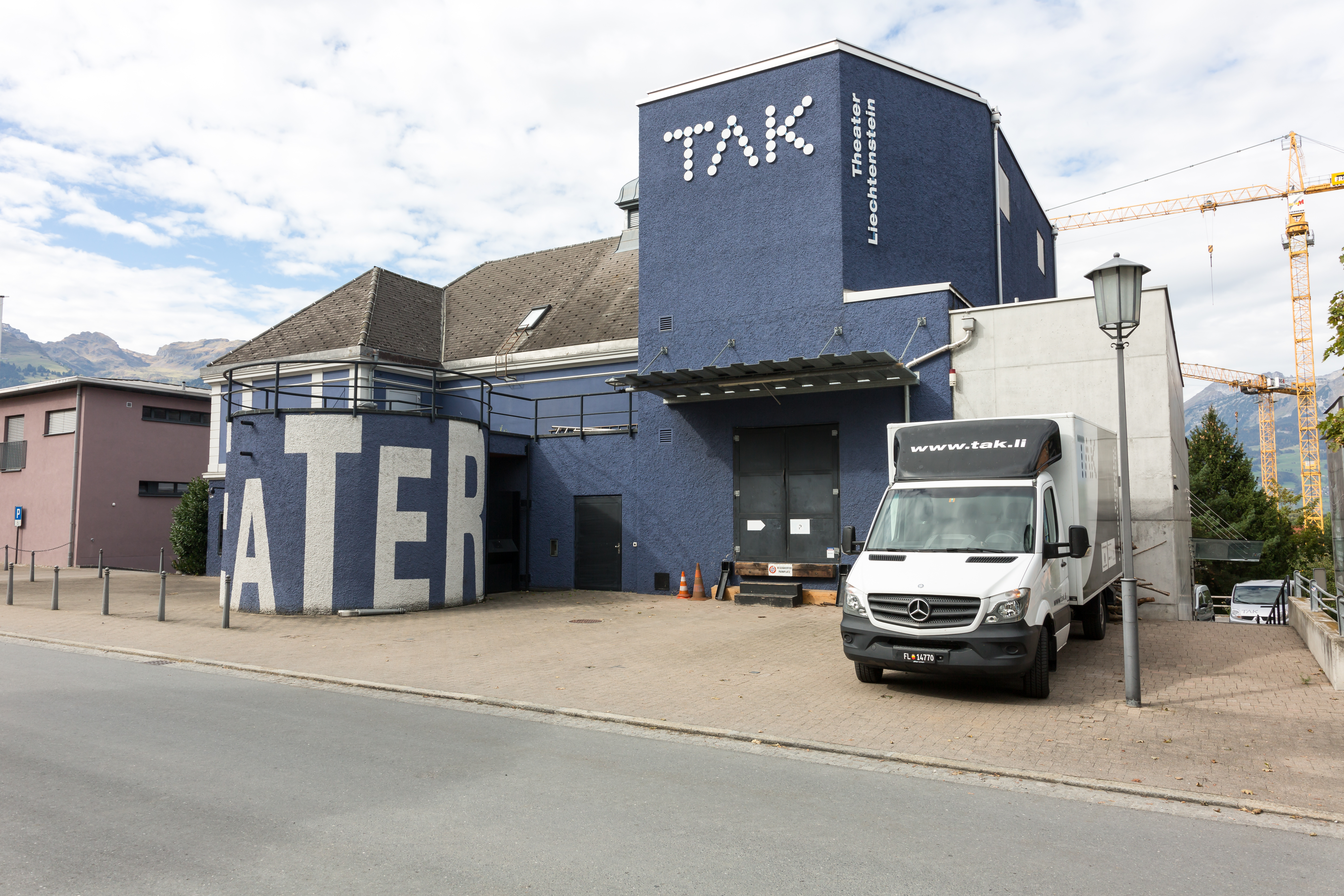 TAK, Schaan